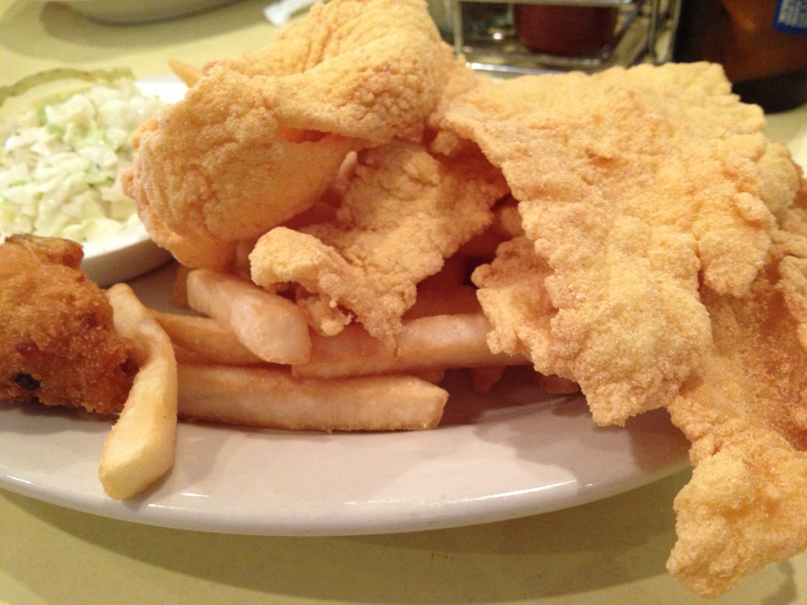 I love me some thin catfish. Mark Spencer ordered the catfish and after hearing me order "thin catfish" he had to confirm that he was getting the same. "It's thin unless you order it otherwise," replied the server. It's kind of like tea, sweet unless you order it otherwise.